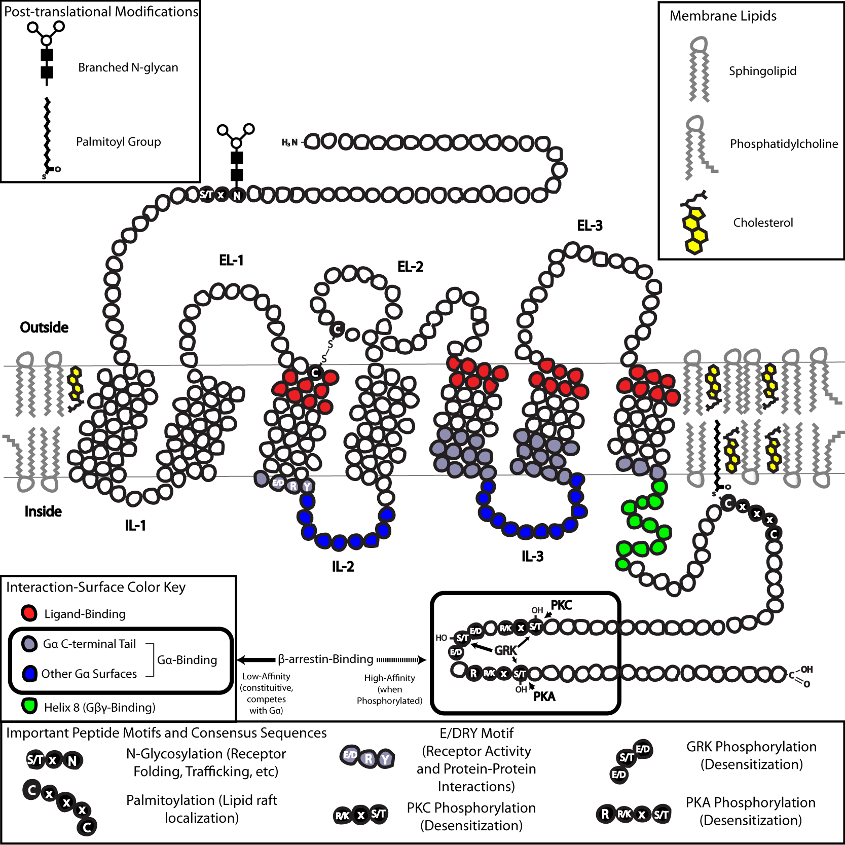 This Cartoon depicts a generic GPCR as it may be found within the plasma membrane localized to a lipid raft. It is a 2-dimensional schematic highlighting select structural features that are important to the biological function of many different GPCRs. Abbreviations, etc: Branched N-glycan Filled black Squares= N-acetylglucosamine Unfilled Circles= Mannose Each circle making up the long chain represents an amino acid. The peptide motifs are represented by filled circles and labeled using commonly accepted single-letter abbreviations for each amino acid. N= Asparagine, x= any amino acid, S/T= Serine or Threonine, C= Cysteine (attached S represents an oxidized sulfhydryl group), E/D= Glutamate or Aspartate, Y=Tyrosine, R/K= Arginine or Lysine GPCR domains: IL-1 to IL-3= Intracellular loops 1-3 EL-1 to EL-3= Extracellular loops 1-3 Other Proteins: G-alpha= Alpha subunit of a heterotrimeric G-protein G-beta/gamma= G-beta/gamma heterodimer of heterotrimeric G-protein PKC= Protein Kinase C PKA= Protein Kinase A GRK= G-protein Coupled Receptor Kinase (GPCR kinase) Final note: The consensus sequence for PKC phosphorylation is written in the legend from C to N terminus, while the other motifs are all shown as N to C. Actually Im not sure if this matters or not...